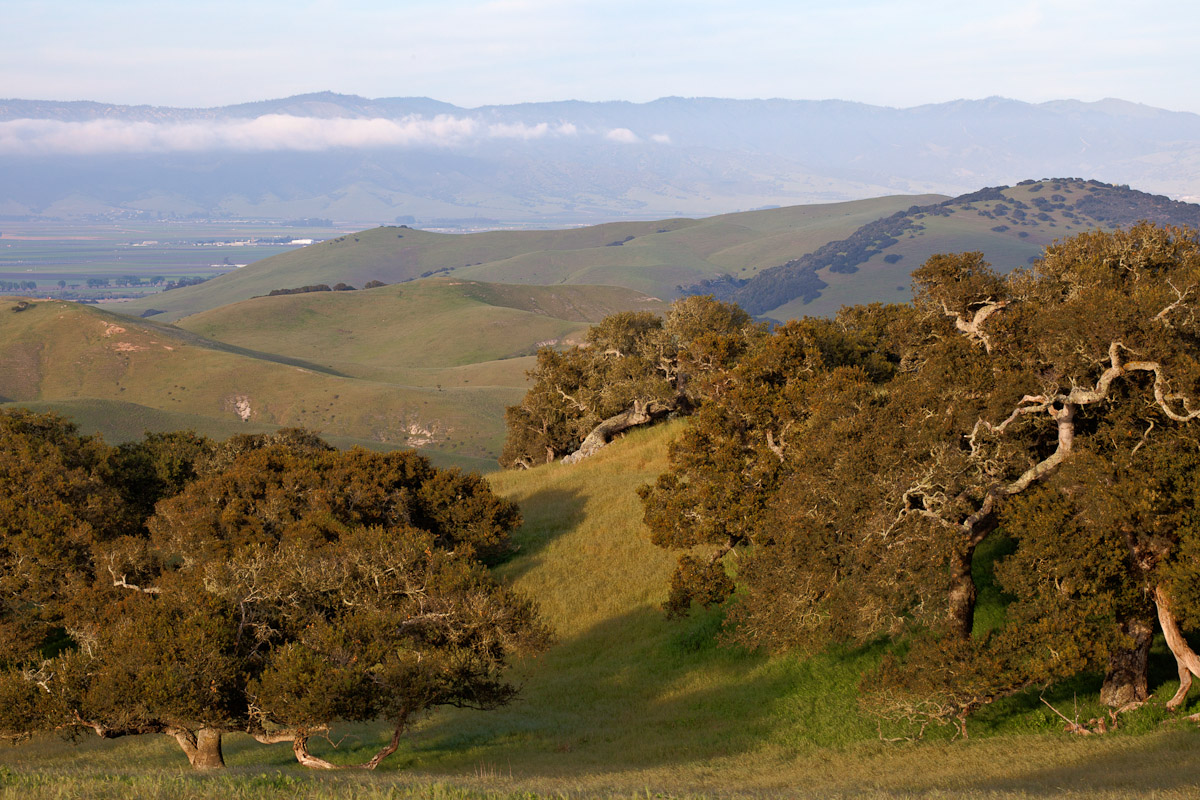 The Fort Ord National Monument holds some of the last undeveloped natural wildlands on the Monterey Peninsula. Located on the former Fort Ord military base, the Bureau of Land Management (BLM) protects and manages 35 species of rare plants and animals along with their native coastal habitats. Habitat preservation and conservation are primary missions for the Fort Ord Public Lands but there are also more than 86 miles of trails for the public to explore on foot, bike or horseback. For more information please visit: Photo: Bob Wick, BLM California